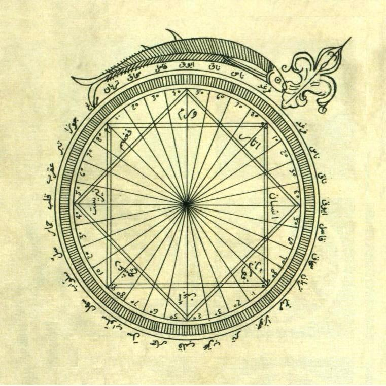 Ink on paper copy of a fish drawing originally on an ancient astrology book. Hitadu, Addu Atoll, Maldives.